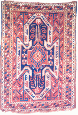 "Borchali" Carpet. Gazakh group.